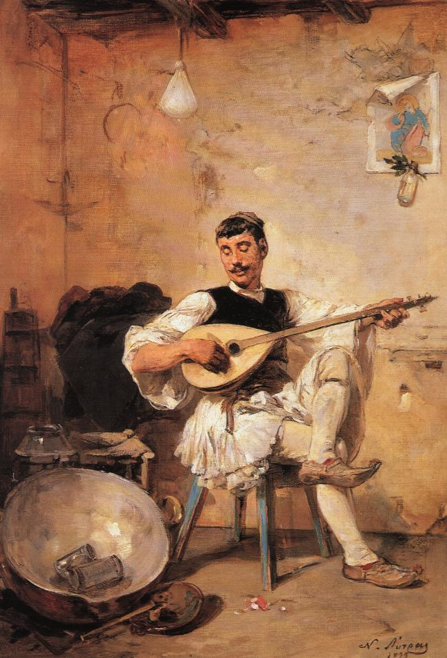 Nikiforos Lytras, The Milkman (1895), oil on canvas, National Gallery of Greece-Alexandros Soutzos Museum